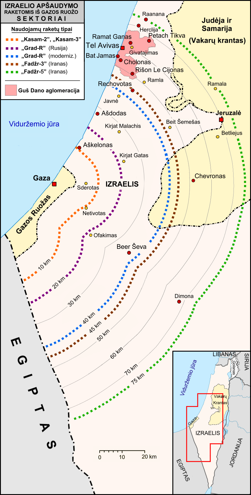 Maximum range of Palestinian missiles launched from Gaza Strip.